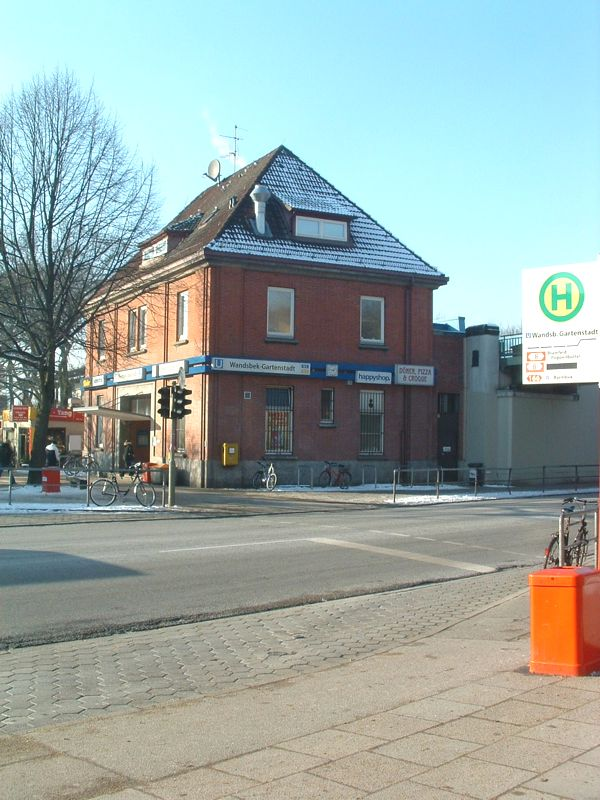 Hamburg's underground station Wandsbek-Gartenstadt (lines U1 + U2), Hamburg, Germany